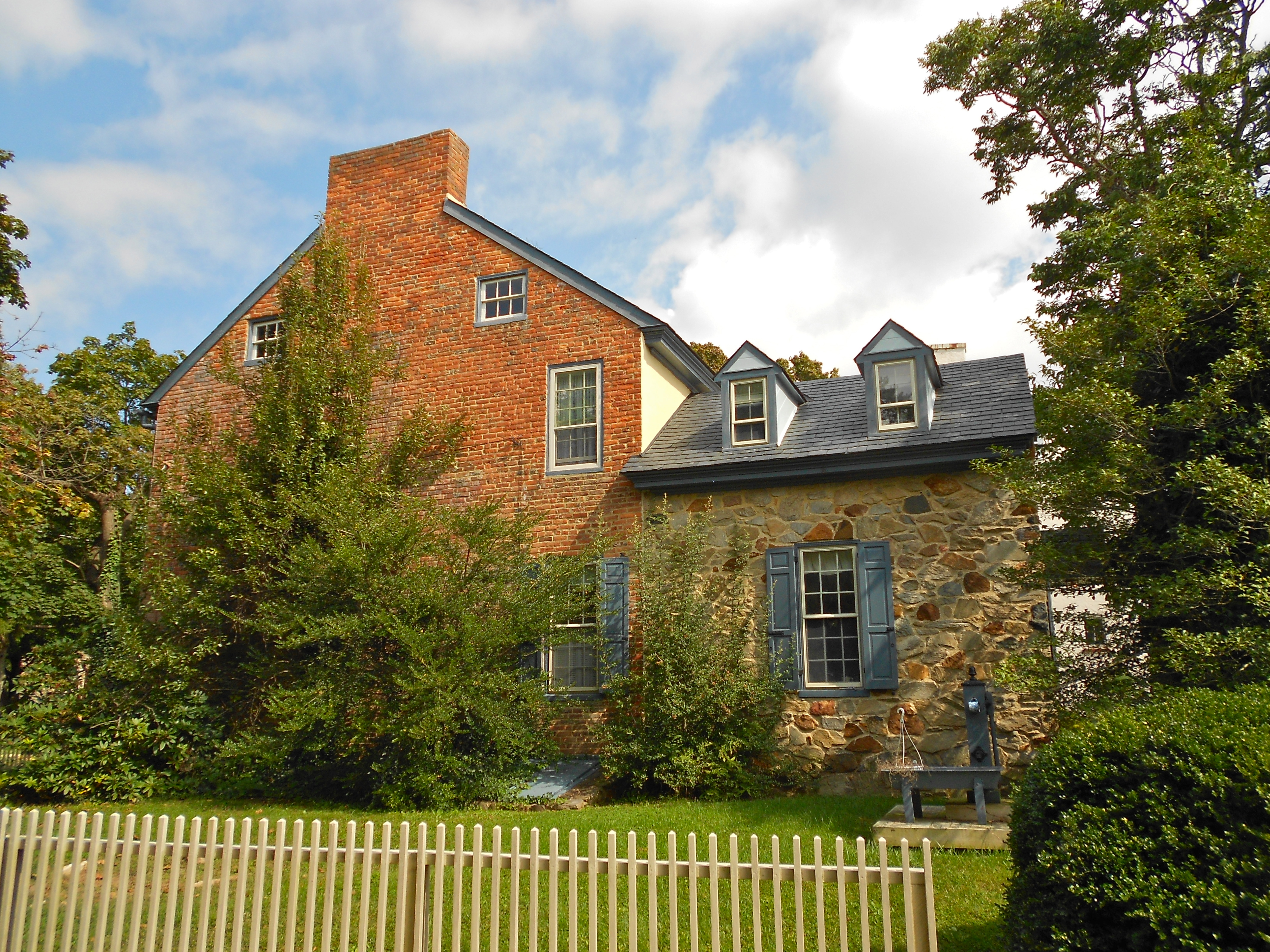 Elisha Kirk House listed on the NRHP on July 21, 1982. Supposedly at 18 Cross Keys Road, Calvert, Cecil County, Maryland. The address is a bit tricky. This is out in the country in a village of about 6 houses and just 2 roads. North of this house is a "Gothic Revival" house at the intersection with Cross Keys Road. That house has a sign on the property (used for fire protection or a utility line?) saying "18 Cross Keys". I checked with that property owner, who said that the Gothic Revival house was on the NRHP. Nevertheless, the NRHP property is described in detail at and is the house pictured here.